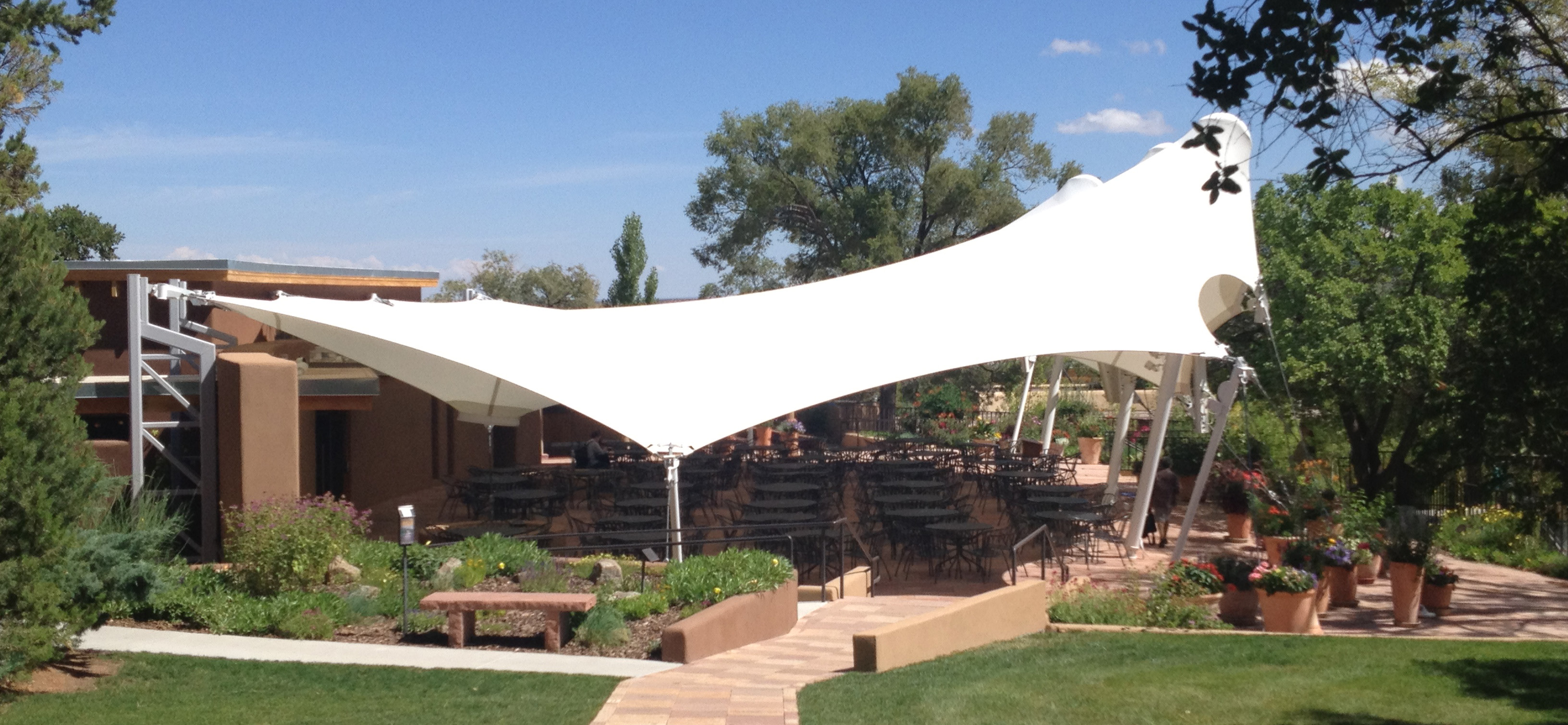 The Dapples Pavilion at The Santa Fe Opera functions as a season-long "cantina" for the opera company's season as well as being available to the audeince for Preview Buffet Dinners prior to evening performances